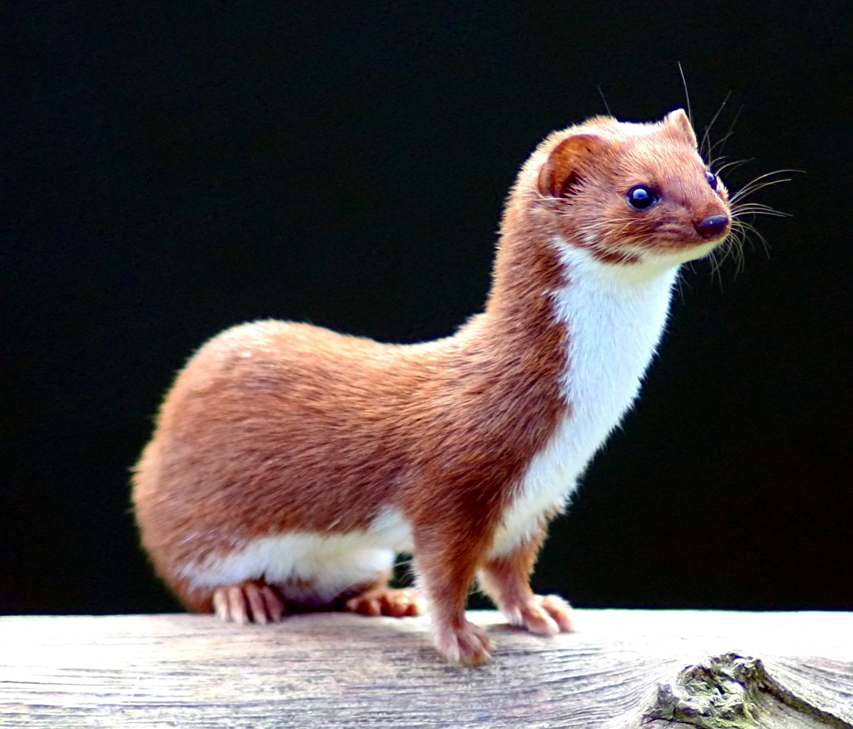 Least Weasel (Mustela nivalis) at the British Wildlife Centre, Surrey, England - photograph taken Sunday 17. August 2008.